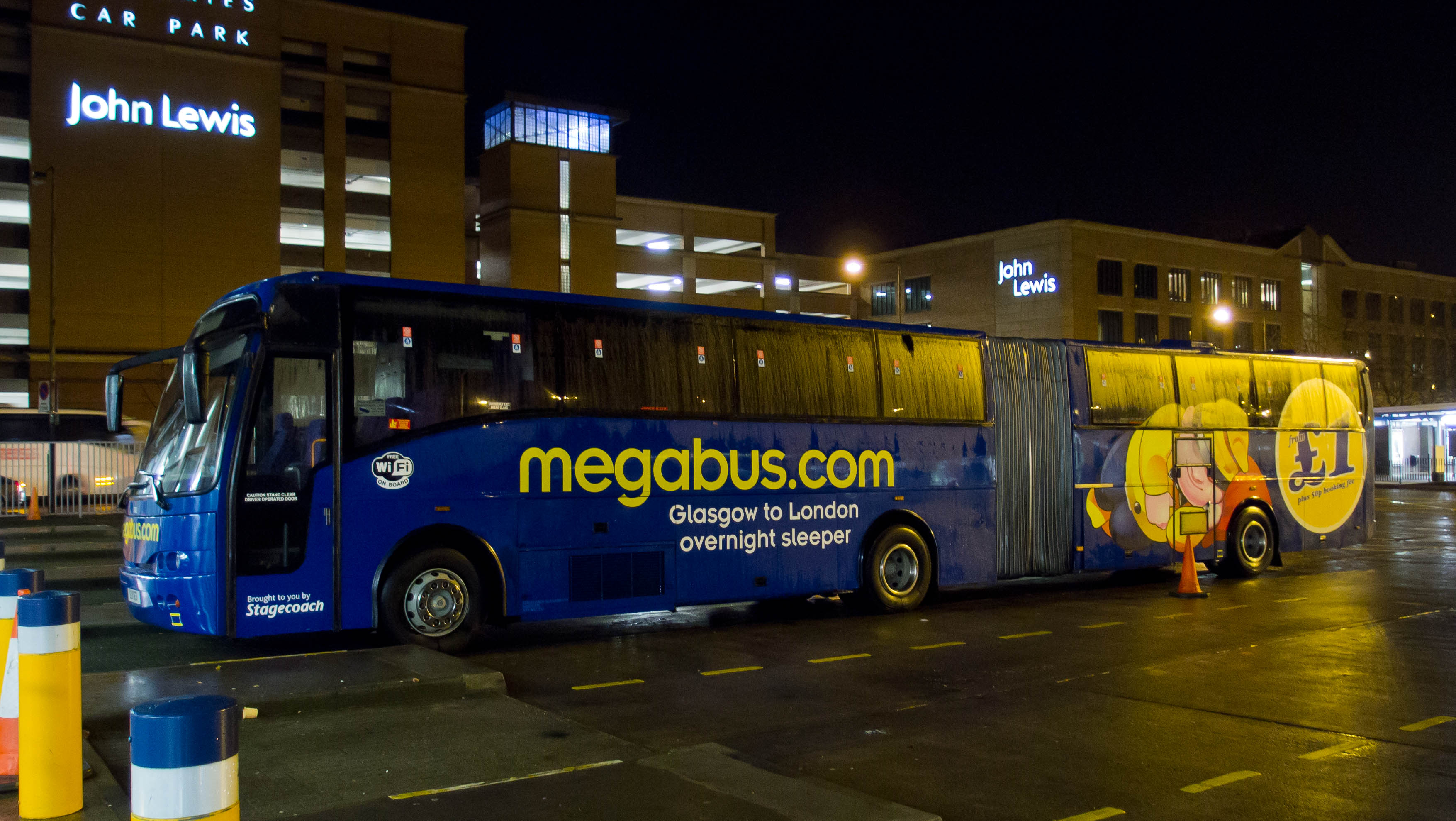 Megabus sleeper coach 51062 at Buchanan bus station, Glasgow